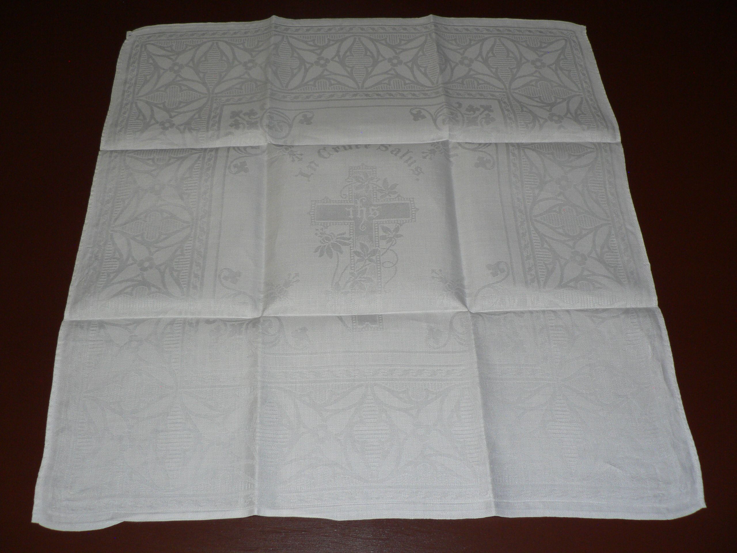 A corporal, lying open on a sacristy table.